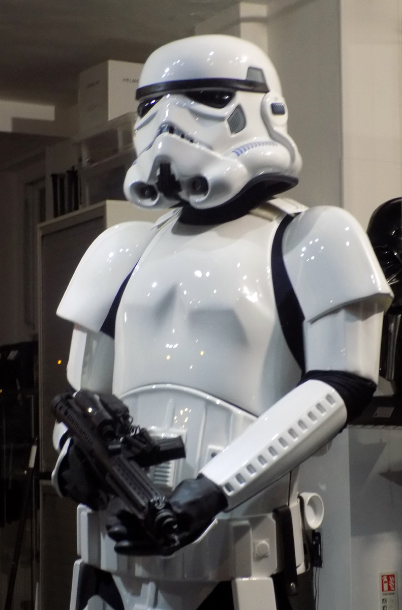 Stormtrooper with an E-11 blaster, typical small-arms weapon of the Stormtroopers in the first 3 Star Wars films.